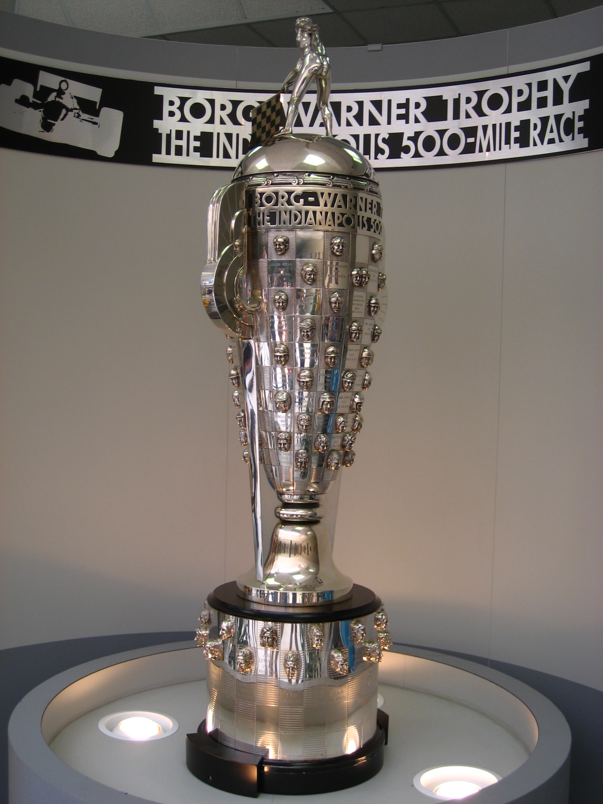 The Spoils - Borg Warner Trophy - The Indianapolis 500